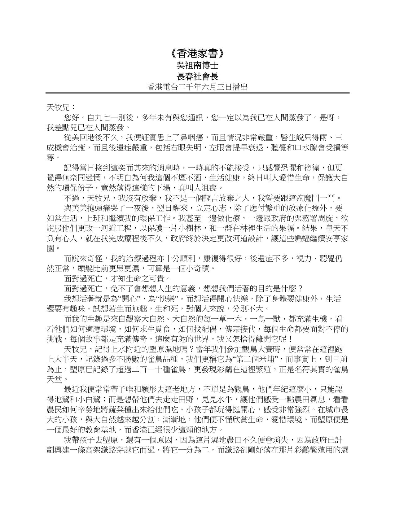 Typed version of Ng Cho Nam's letter to Hong Kong, which was broadcasted on RTHK on June 3, 2000